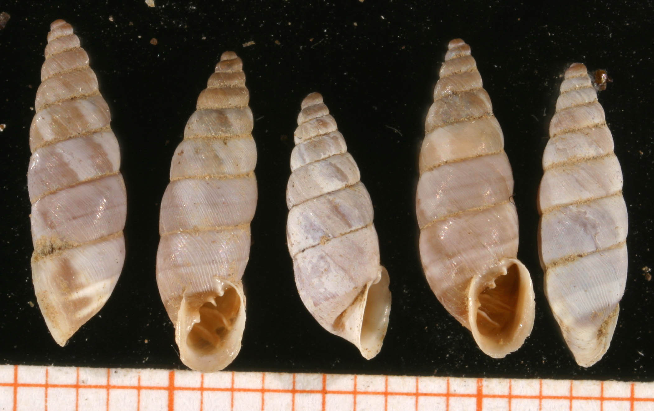 Solatopupa similis (Bruguière, 1792), Chondrinidae, Pulmonata, Gastropoda, near Andora, Liguria, Italy